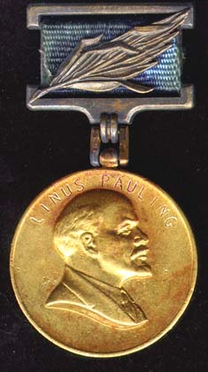 Lenin Peace Medal (Front)